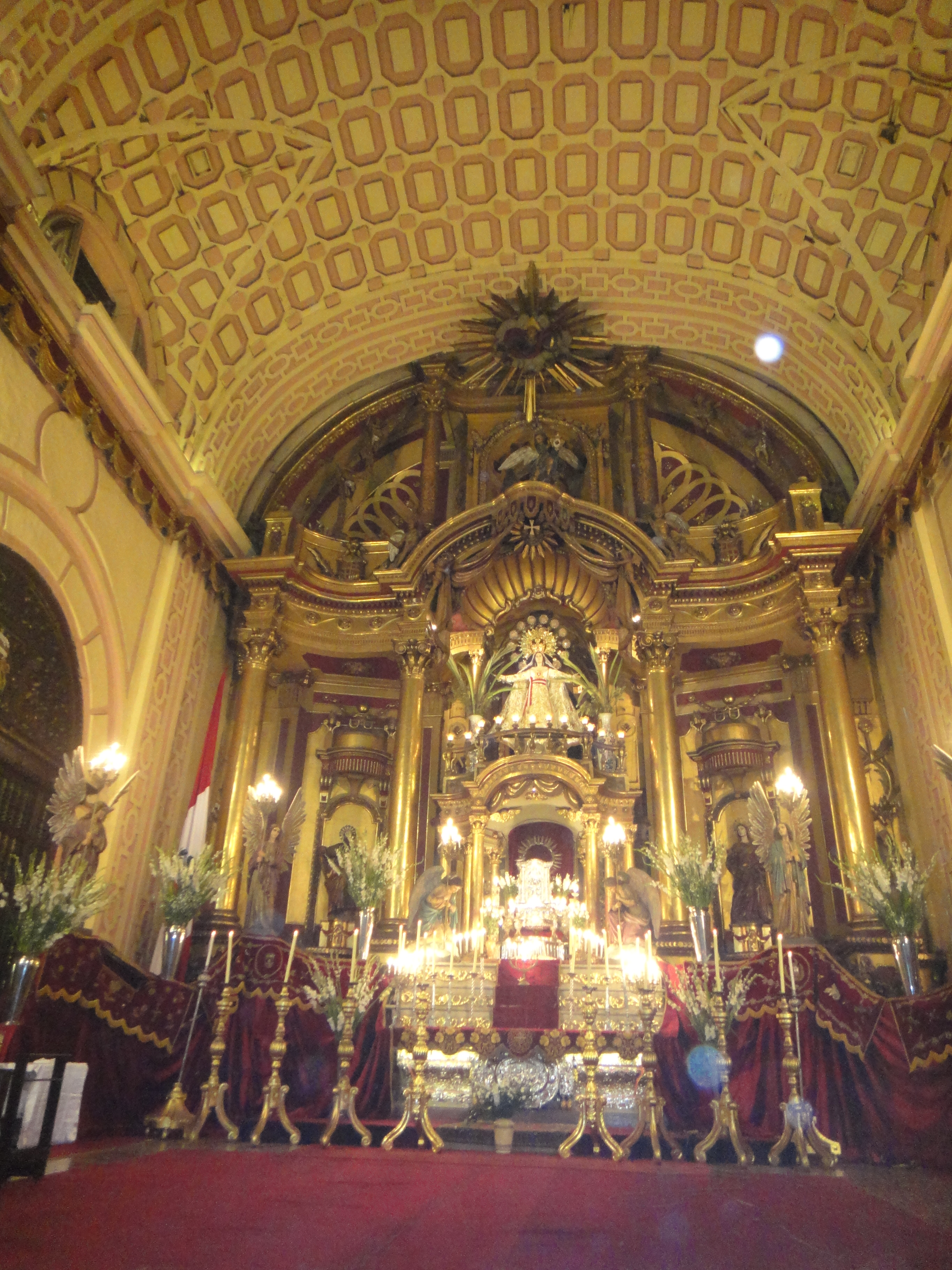 Main altar in Our Lady of Mercy Basilica, Lima-Peru.